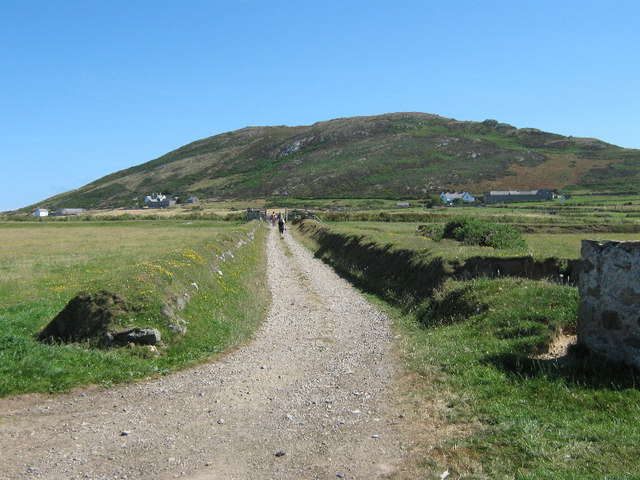 Bardsey's main road The road from the slip way towards the farm houses is flanked by substantial stone and earth walls. It's the main track from north to south on the island.